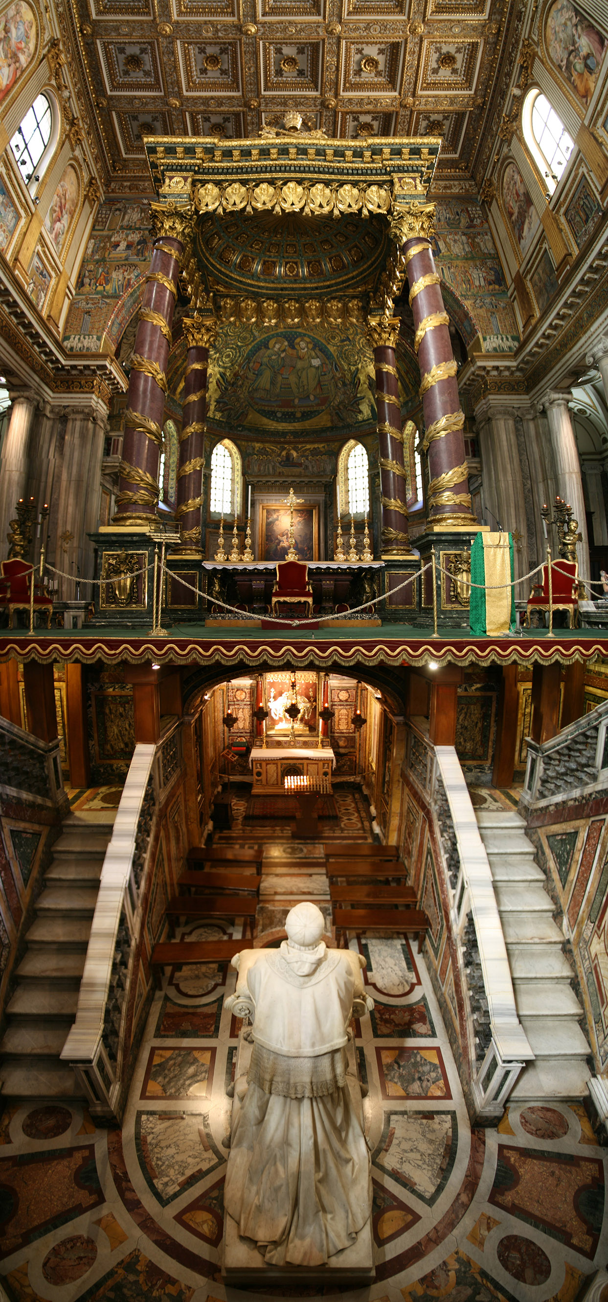 Santa Maria Maggiore, Rome, Italy. View from front of crypt to the altar.